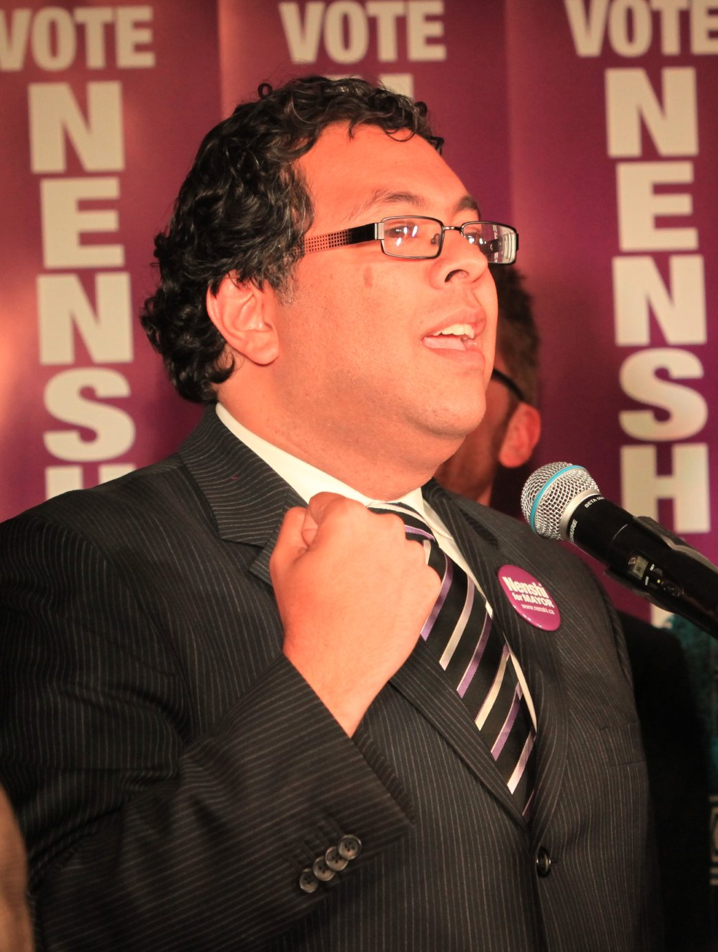 Naheed Nenshi after winning the Calgary municipal election, 2010.